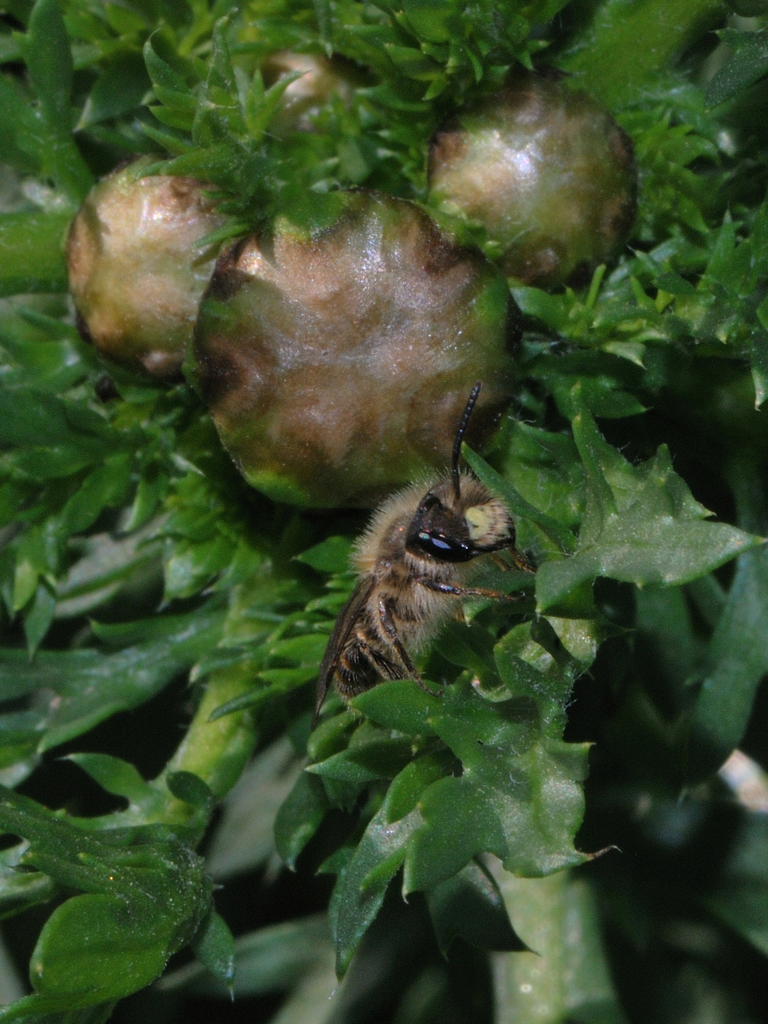 Andrena (Carandrena) aerinifrons levantina Hedicke, 1938, male standing on Glebionis coronaria, Judean Foothills, Israel, February 28, 2011. Det. Erwin Scheuchl 2011.